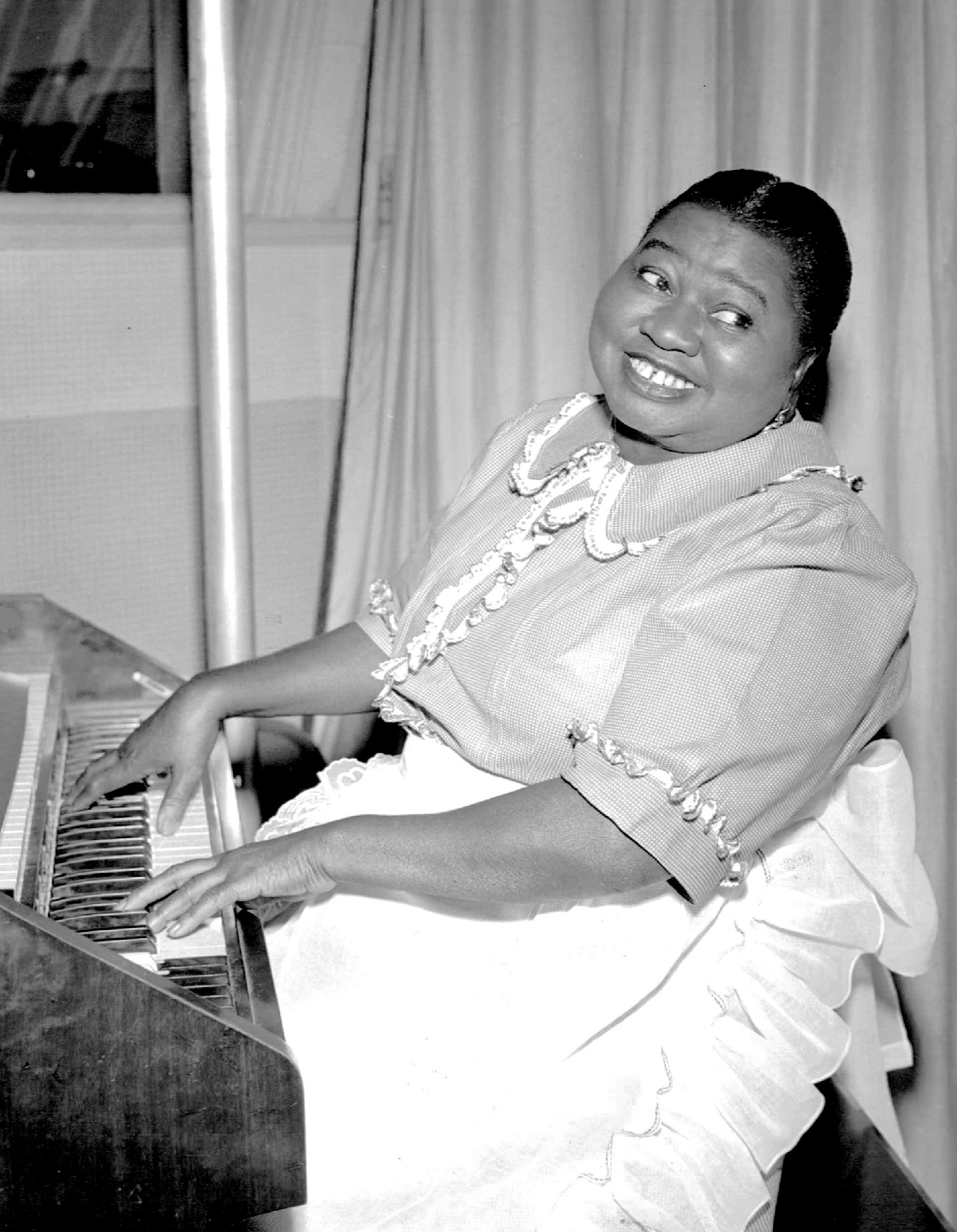 Photo of Hattie McDaniel as Beulah from the radio program of the same name. The original role was voiced by actor Marlin Hurt. Shortly after his sudden death in 1946, the role went to African-American actresses, beginning with Hattie McDaniel.